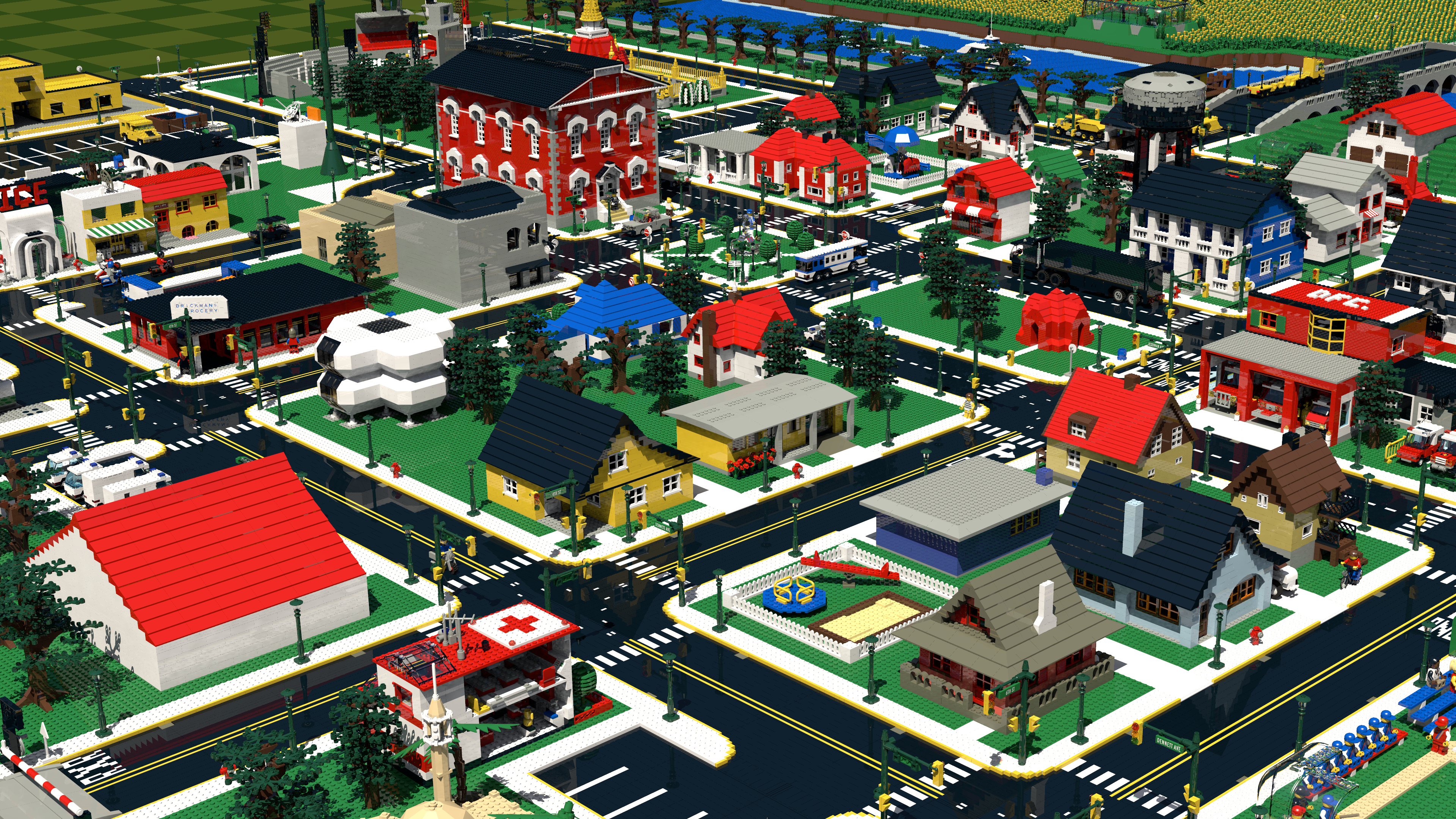 A small town built using the LDraw system of tools and rendered in POV-Ray. The model has over 225,000 parts.